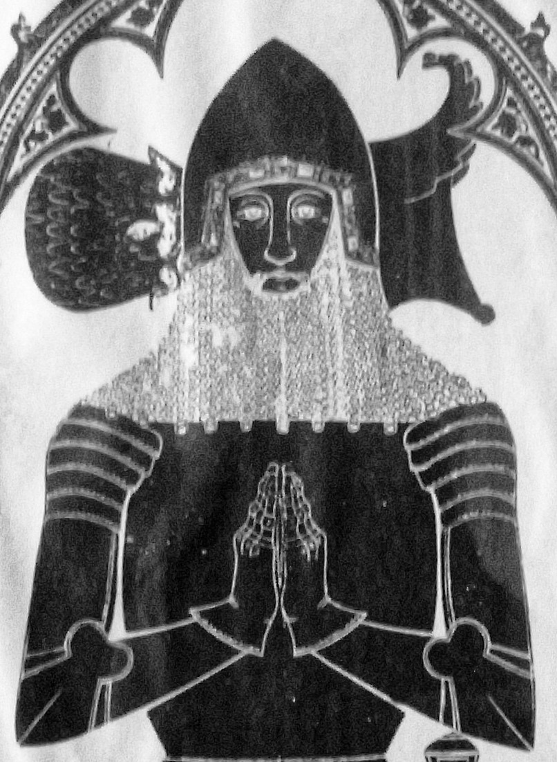 Rubbing from monumental brass of Sir Peter Courtenay (d.1405), 5th son of Hugh Courtenay, 2nd Earl of Devon (d.1377), Exeter Cathedral, south aisle.